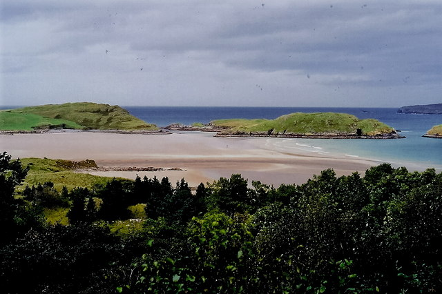 Ards Forest Park - Clonmass Bay from forest track